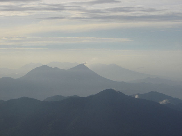 Volcanoes of the Sierra Madre in Guatemala.